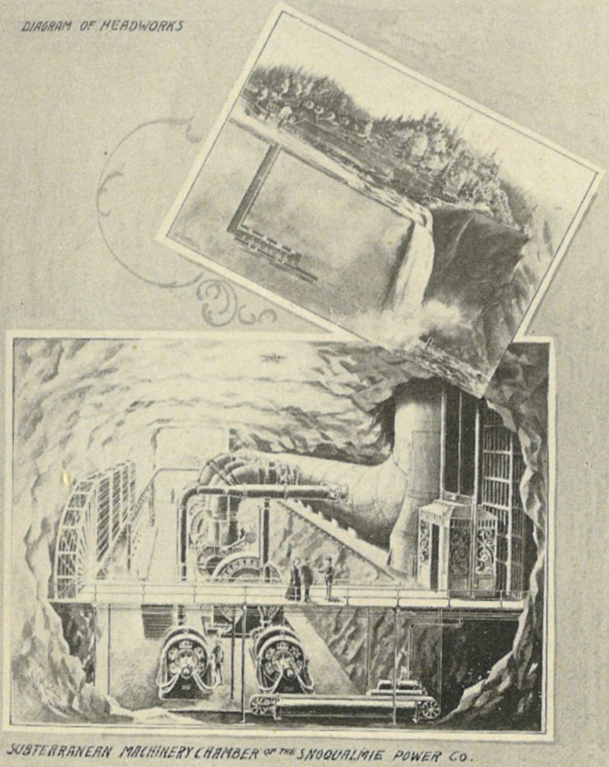 Two cutaways of the hydroelectric plant at Snoqualmie Falls, from brochure Seattle and the Orient (1900). Together they are captioned in the brochure as "The Snoqualmie Power Co."; the upper illustration is captioned "Diagram of Headworks" and the lower "Subterranean machinery chamber of the Snoqualmie Power Co."